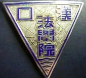 The logo of Hankow Law School, a school situated in Hankou from 1946 to 1949, which was shut down by the communists.